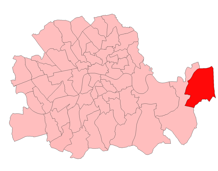 A map of Woolwich East constituency within the London County Council area, as it existed from 1918 to 1949.